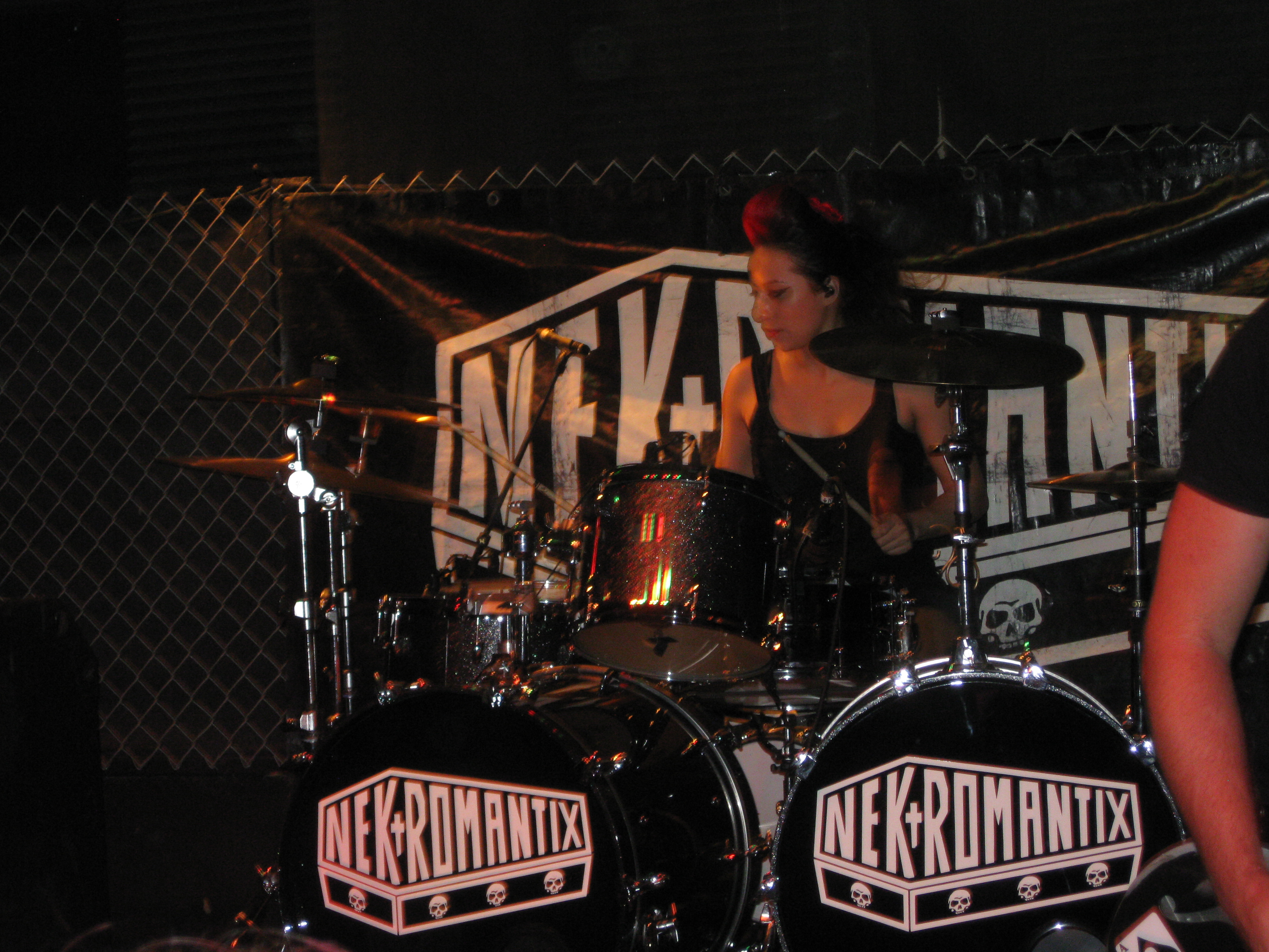 Lux (drummer) of Nekromantix performing in San Diego, California on August 13, 2011.